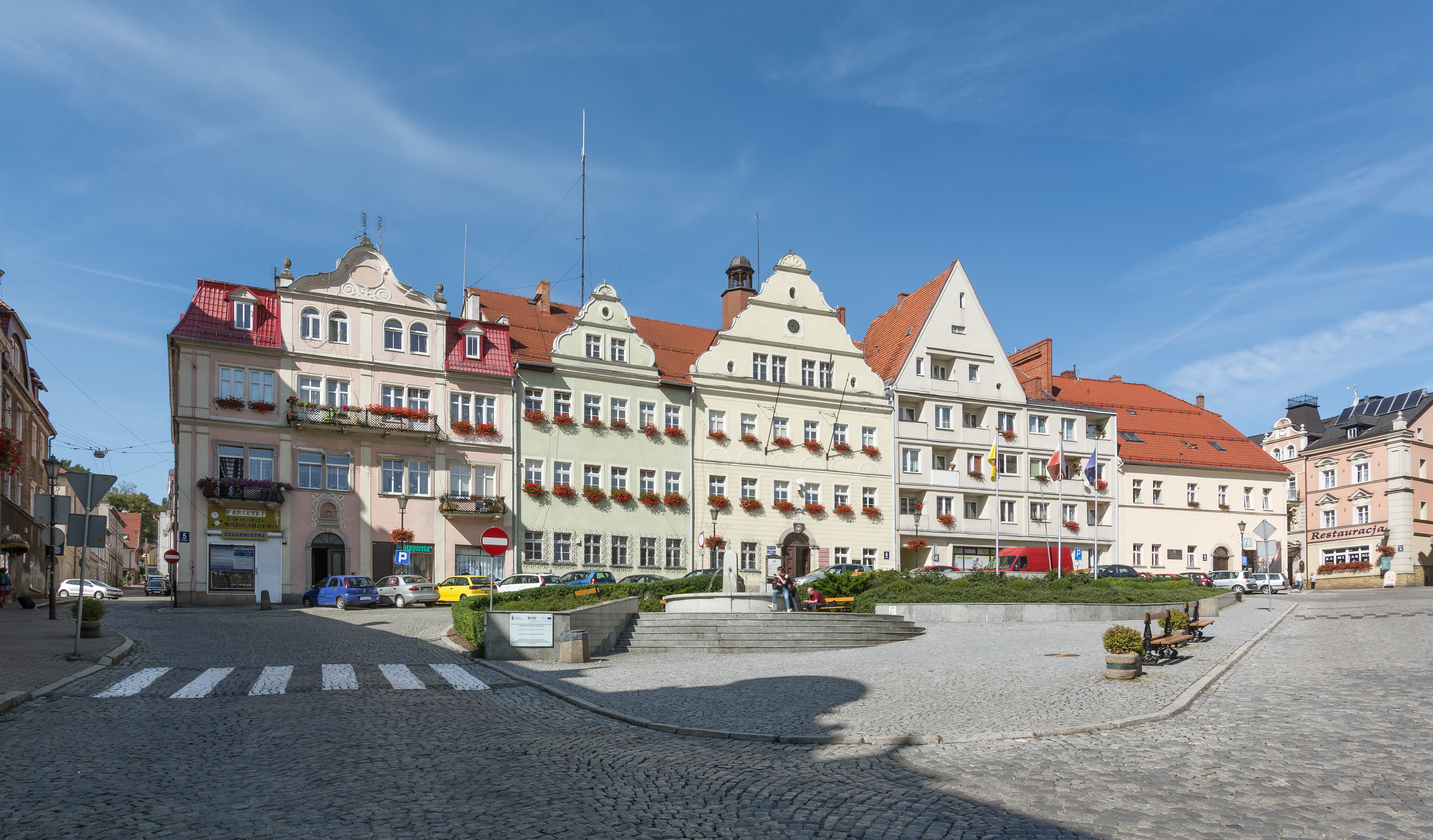 Market Square in Duszniki-Zdrój, western frontage Wikidata has entry Q30047037 with data related to this item.